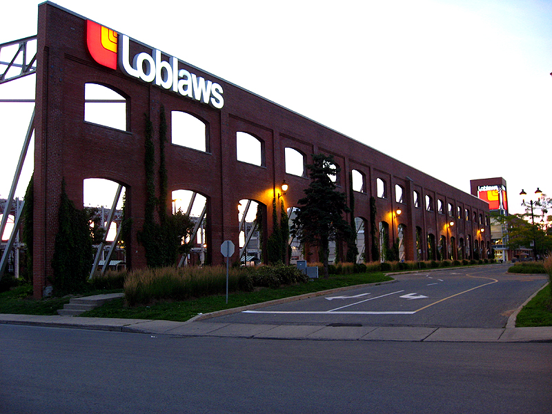 Loblaws